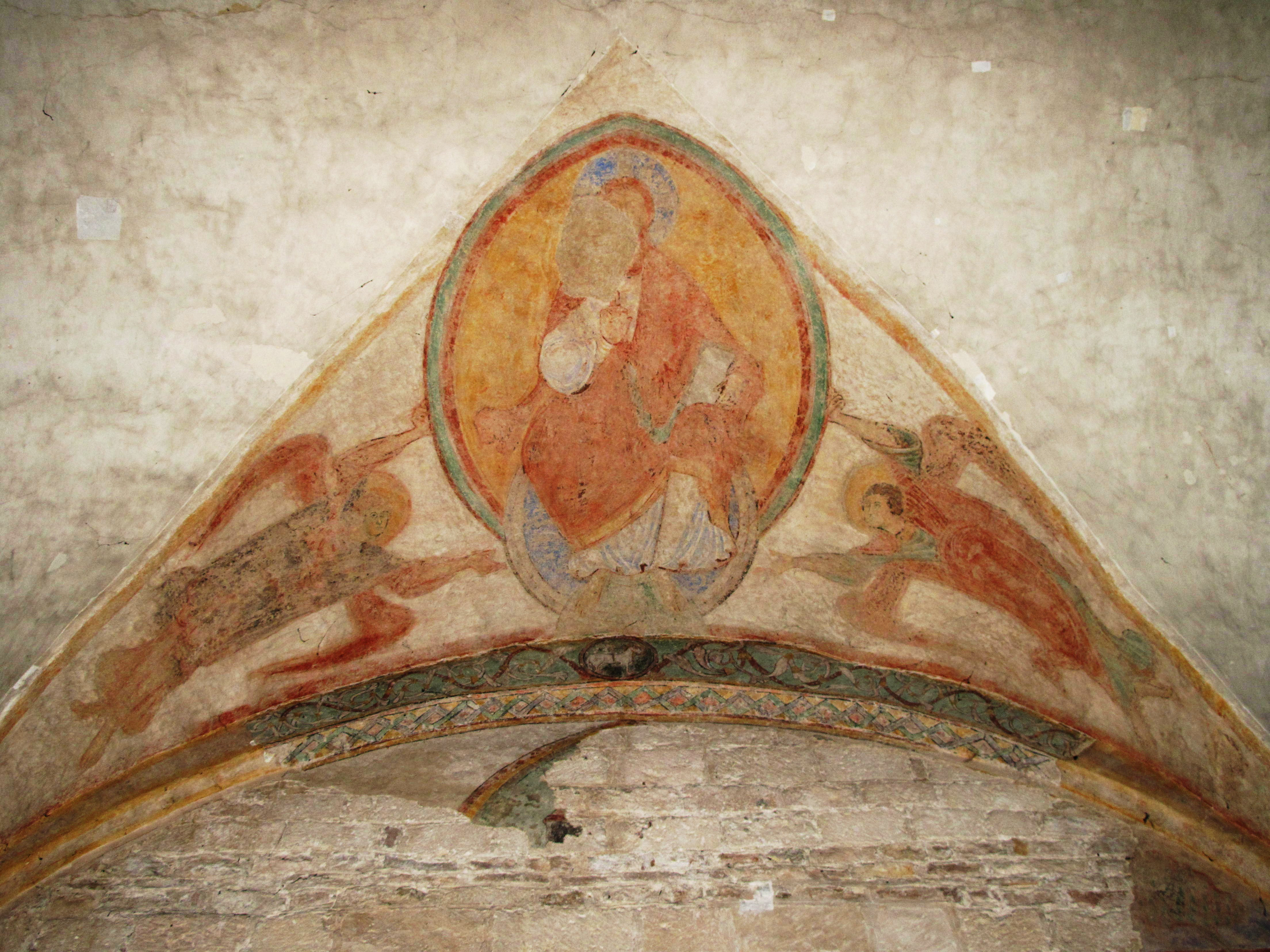 Frescos in the narthex of the Saint-Philibert abbey in Tournus (Saône-et-Loire, France).